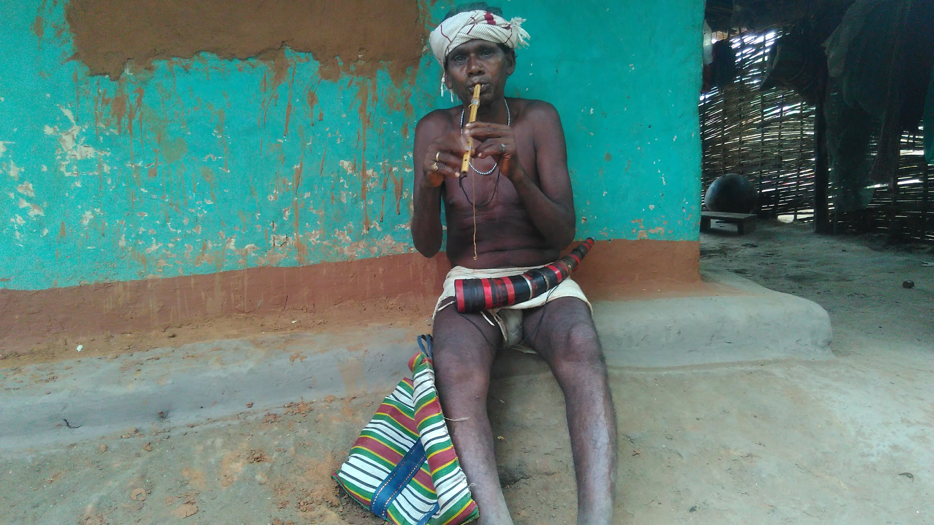 This picture is from Dhurras hamlet in Chhindawara village of Darbha block. Darbha falls in Bastar district of Chhattisgarh. In the picture is an old man from Dhurwa tribe wearing tradition headgear and playing a traditional music instrument of his tribe.